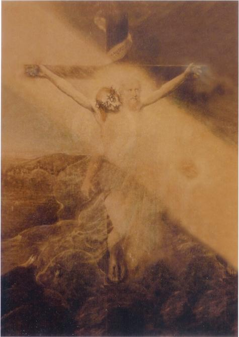 Painting of crucifixion.